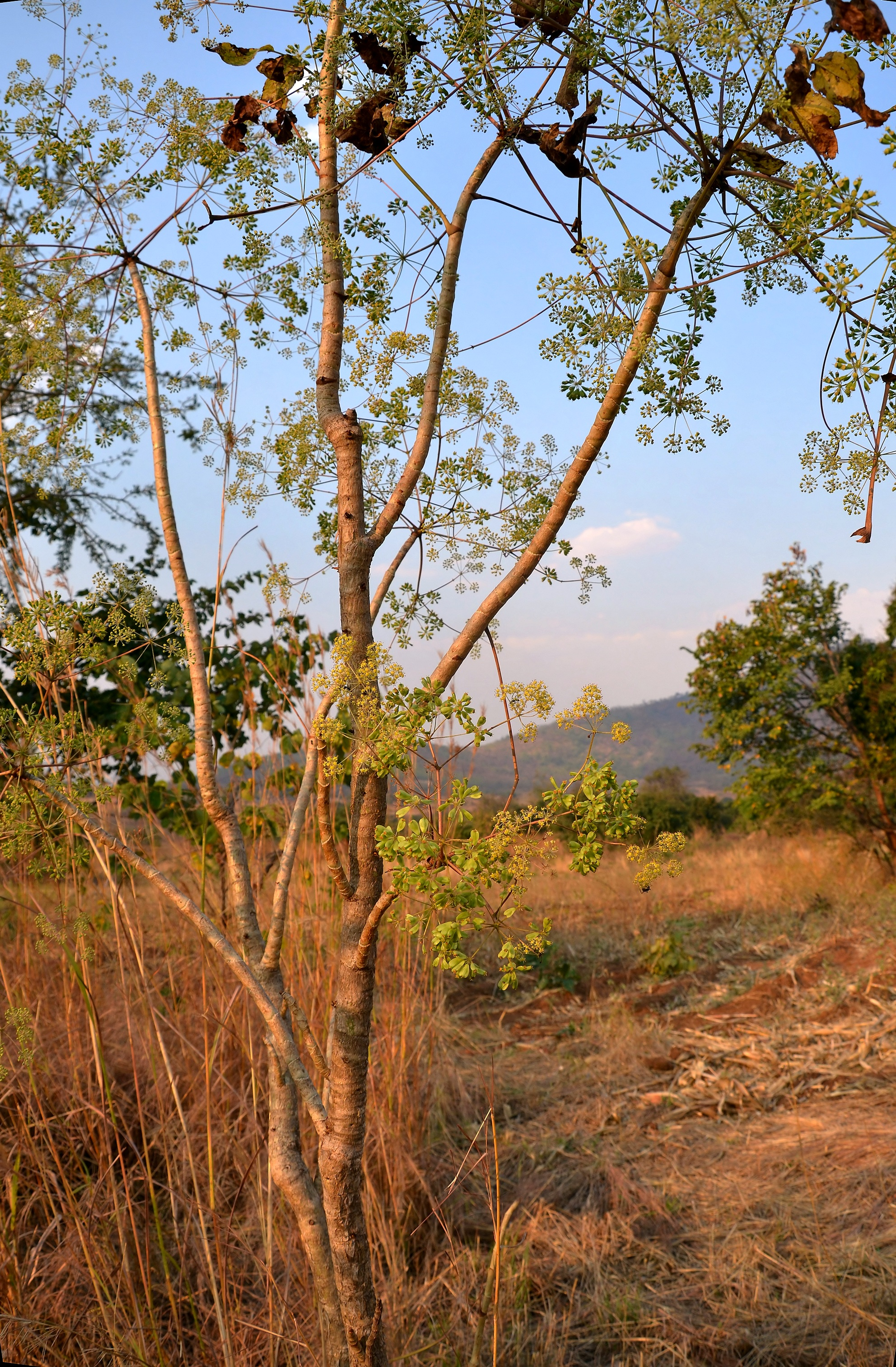 Carrot tree close to Lundazi road near Chipata, Zambia